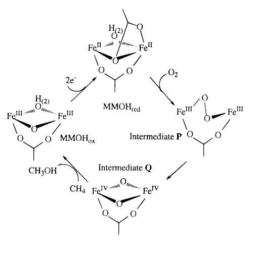 Proposed catalystic mechanism of MMO